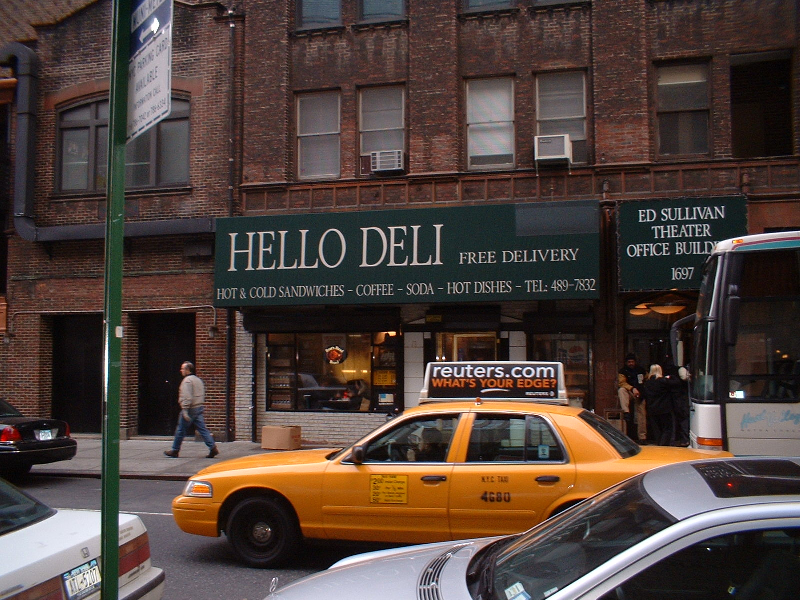 Hello Deli (213 W. 53rd St.) and Ed Sullivan Theatre office entrance (1697 Broadway) in the Theater District, Manhattan, New York City